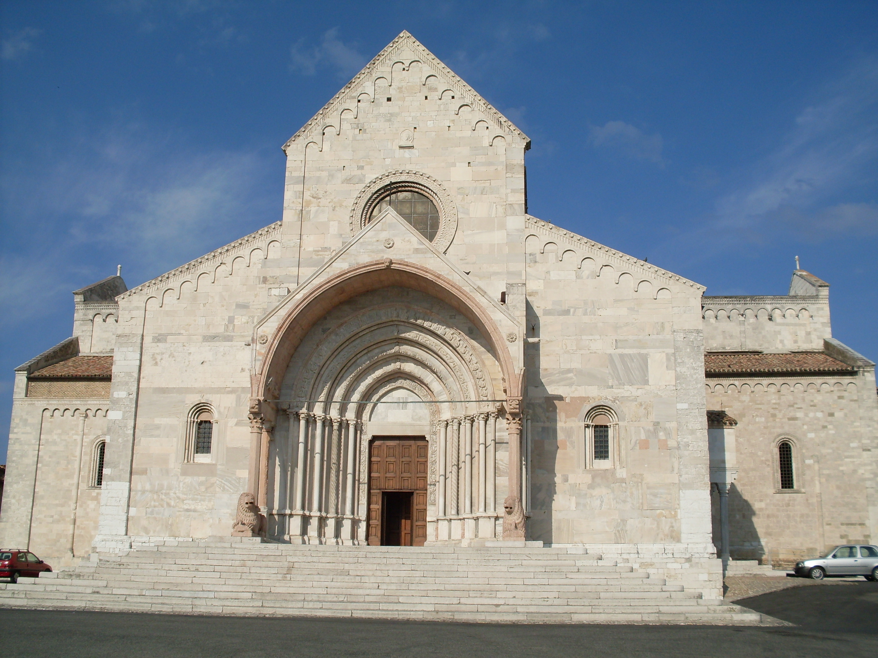 Ancona S.Ciriaco Cathedral - ITALY